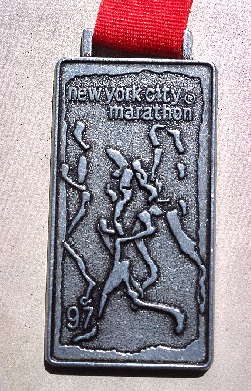 Teilnehmer-Medaille New York Marathon 97